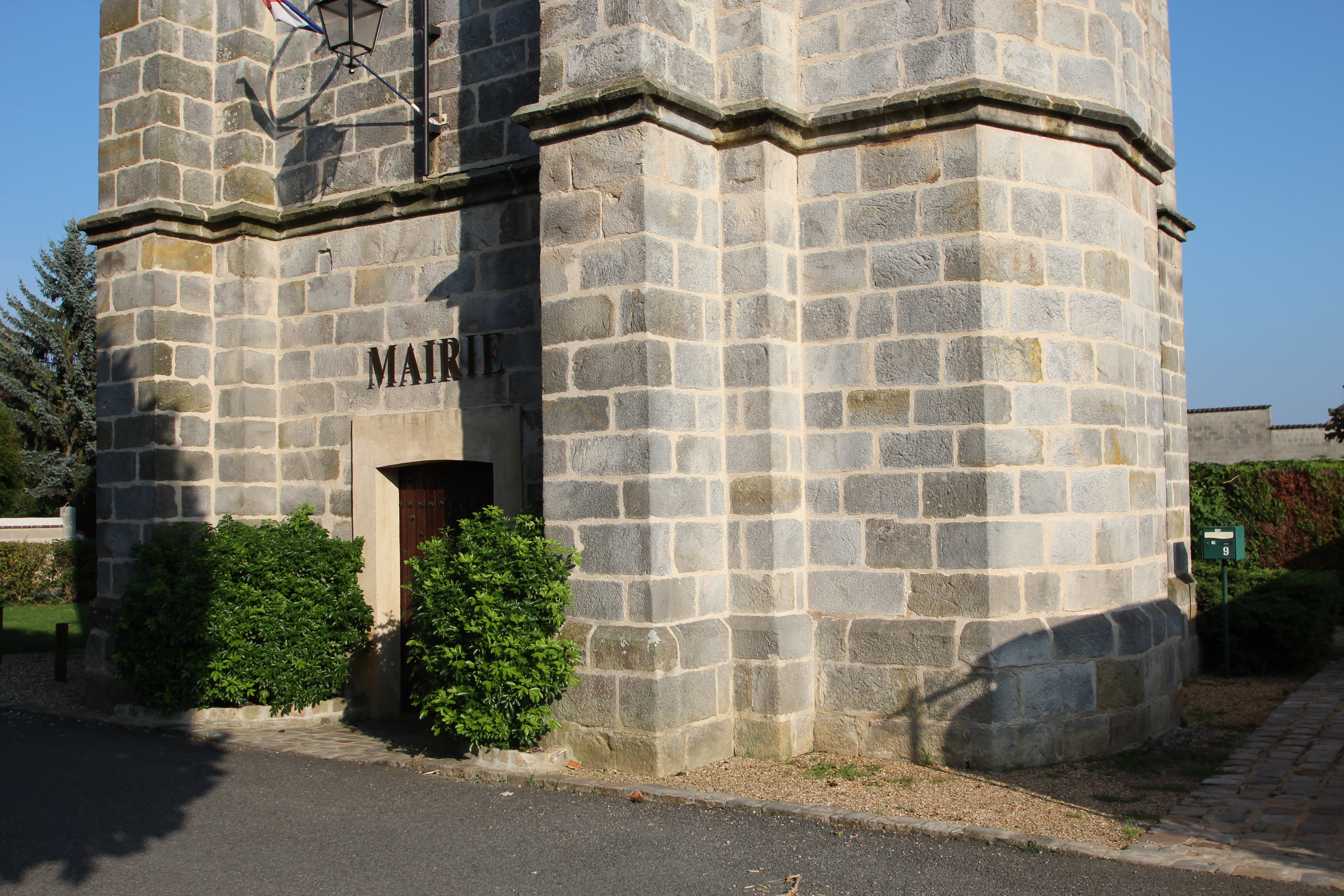 Pilori tower in Lormaye, France. . Object location48° 38′ 49.18″ N, 1° 32′ 22.82″ E